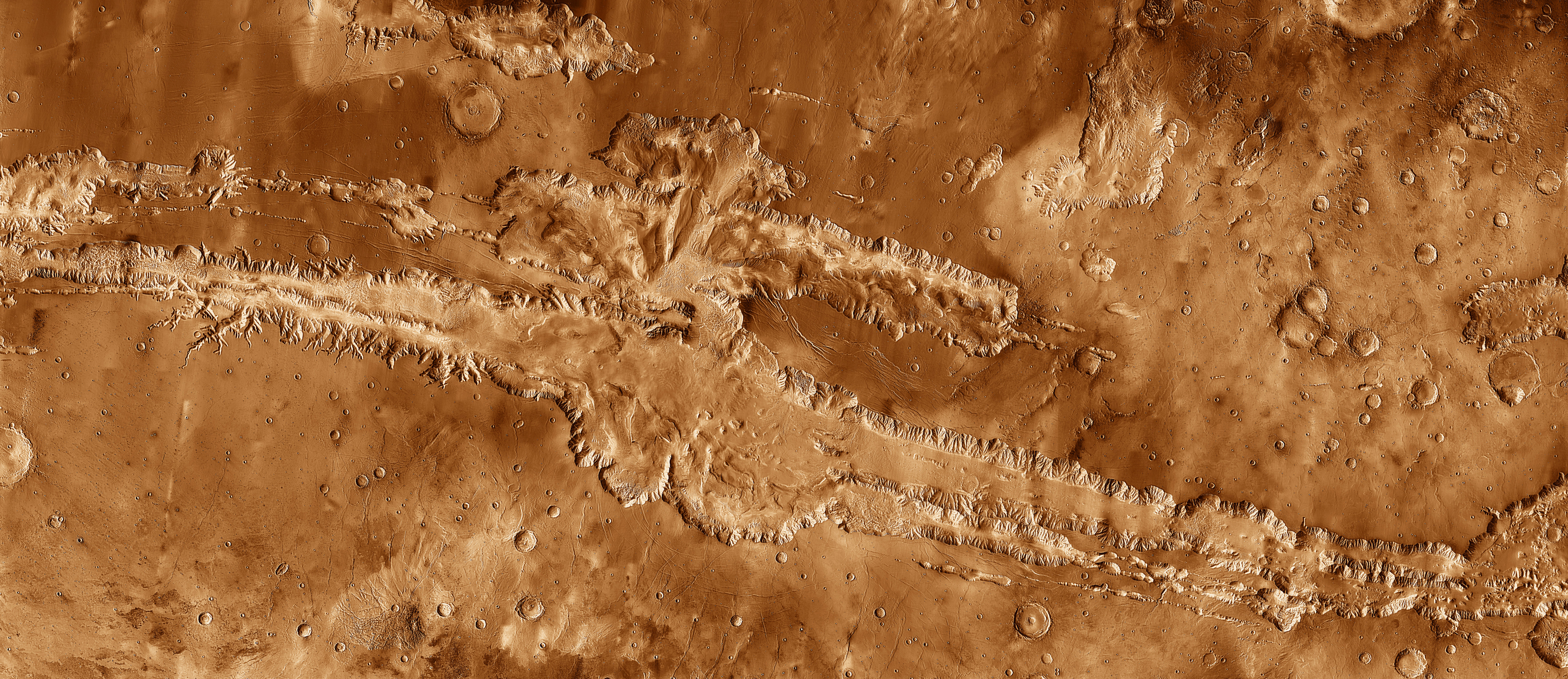 A ragged geological scar crosses the belly of Mars. Long enough to reach from New York City to Los Angeles, this great rift in the martian crust is named Valles Marineris, or Mariner Valley. It was discovered in 1972 by the Mariner 9 spacecraft. Formed out of several parallel, connecting troughs, Valles Marineris dwarfs Earth's Grand Canyon in every respect, being wider, longer, deeper, and older. It easily earns the title of Grandest Canyon of All. This mosaic image of Valles Marineris - colored to resemble the martian surface - comes from the Thermal Emission Imaging System (THEMIS), a visible-light and infrared-sensing camera on NASA's Mars Odyssey orbiter. Mars Odyssey was built by Lockheed Martin and the mission is operated by the Jet Propulsion Laboratory. Built from more than 500 daytime infrared photos, the mosaic shows the whole valley in more detail than any previous composite photo. Despite the valley's huge extent - including its western extension through Noctis Labyrinthus, it reaches some 3,000 kilometers (2,000 miles) long - the smallest details visible in the image are about the size of a football field: 100 meters (328 feet). This is a reduced size (approximately one fourth the linear pixel density) and cropped (at the bottom) version of the original 23,711 x 11,856 pixel THEMIS mosaic, and has also been adjusted in hue and saturation.